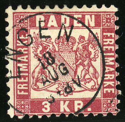 Duchy of Baden, 3 kreuzer stamp issue October 1868, cancelled at ENGEN.